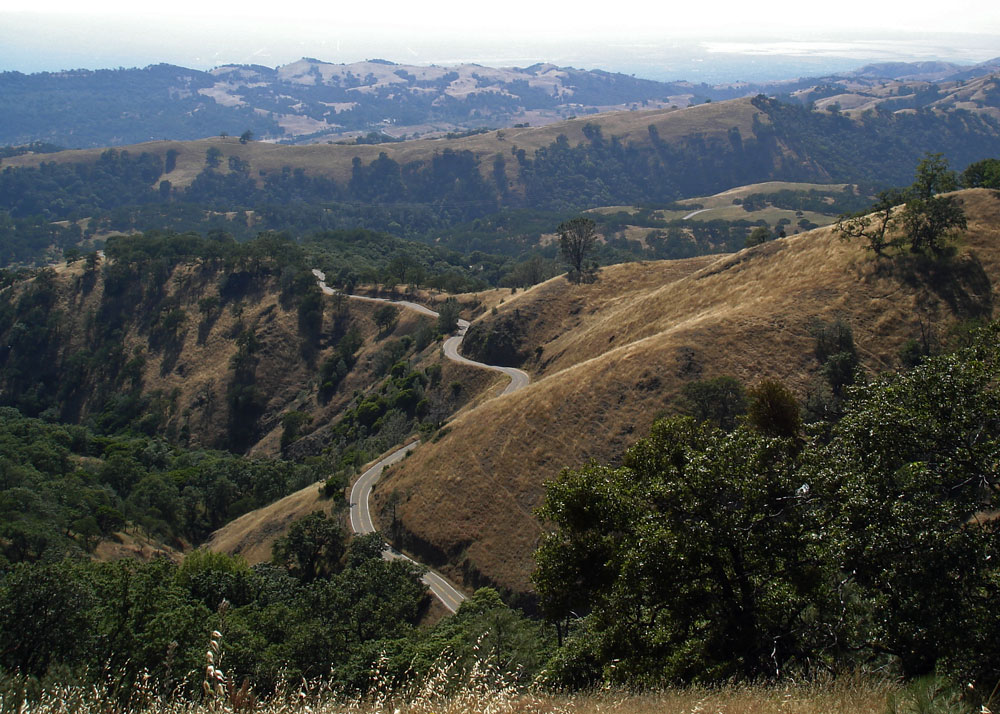 Route 130 winding around through oak woodlands in the mountains of the Diablo Range, Santa Clara County, California.